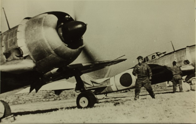 PictionID:6485623 - Catalog:01_00086193 - Title:Nakajima, Ki-44, Shoki 'Devil Queller' Tojo 'John' Army Type 2 Single seat Fighter' - Filename:01_00086193.TIF - Image from the Charles Daniels Photo Collection album "Seversky, Republic and P-47"----PLEASE TAG this image with any information you know about it, so that we can permanently store this data with the original image file in our Digital Asset Management System.----SOURCE INSTITUTION: San Diego Air and Space Museum Archive